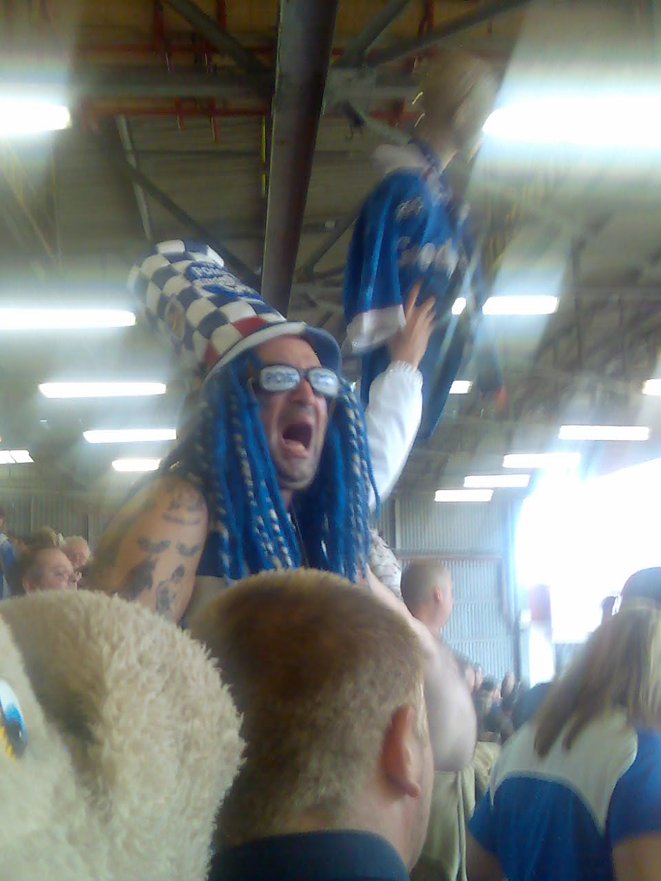 a picture of famous portsmouth fc fan, john westwood